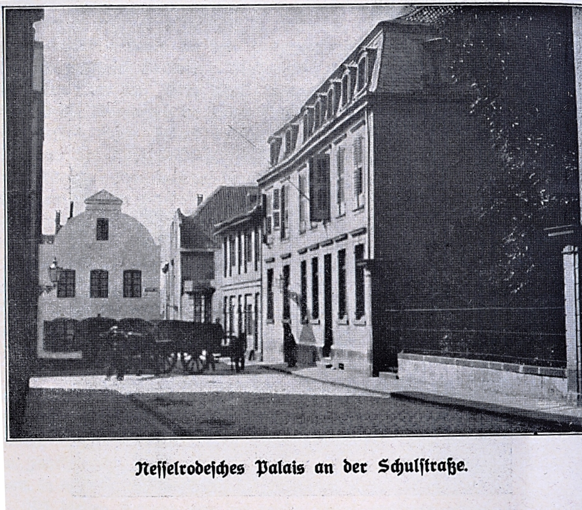 t